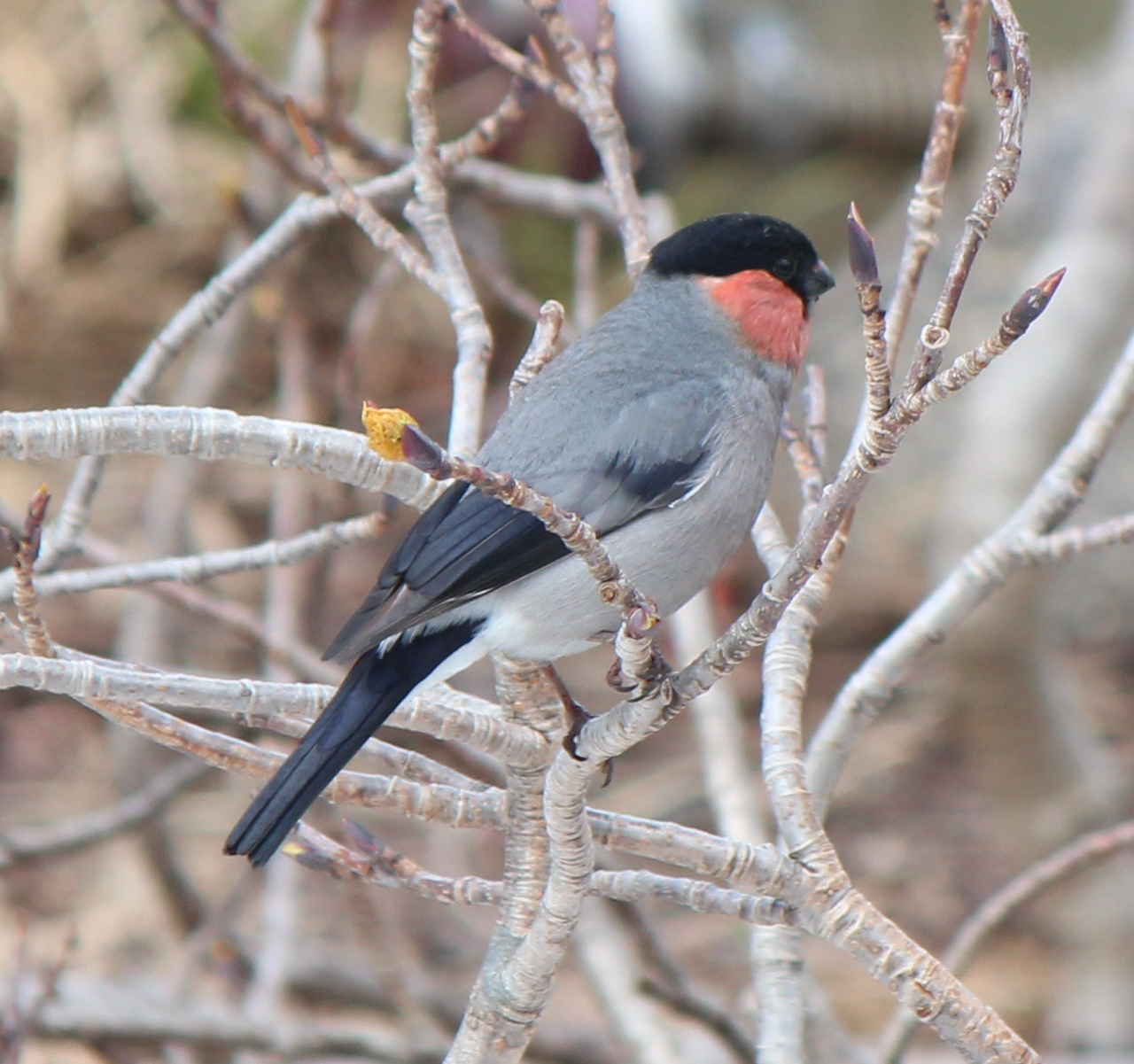 Eurasian Bullfinch (Pyrrhula pyrrhula griseiventris) in Mount Haku, Ishikawa pref., Japan.